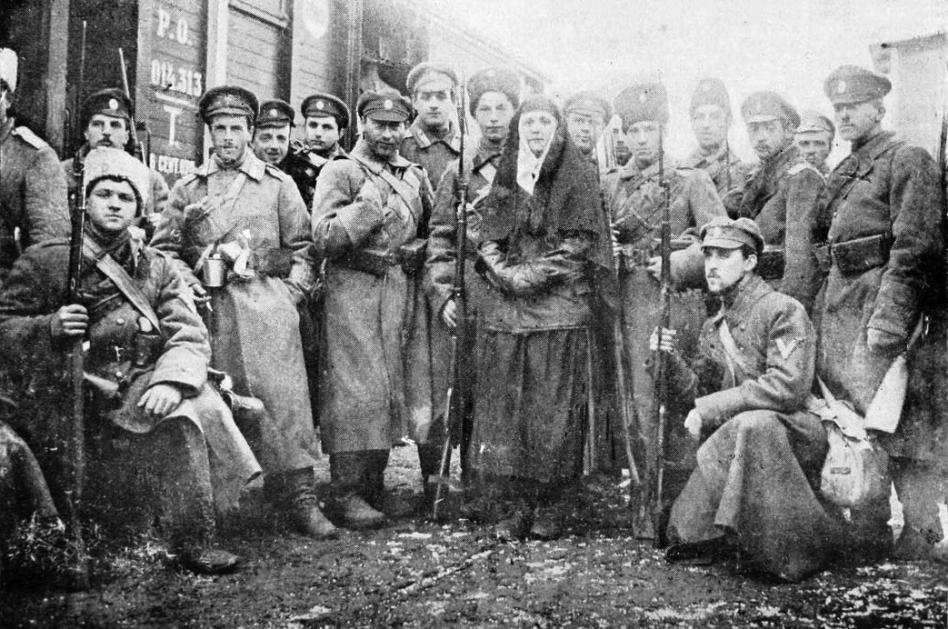 Volunteer Army infantry company composed of guards officers.